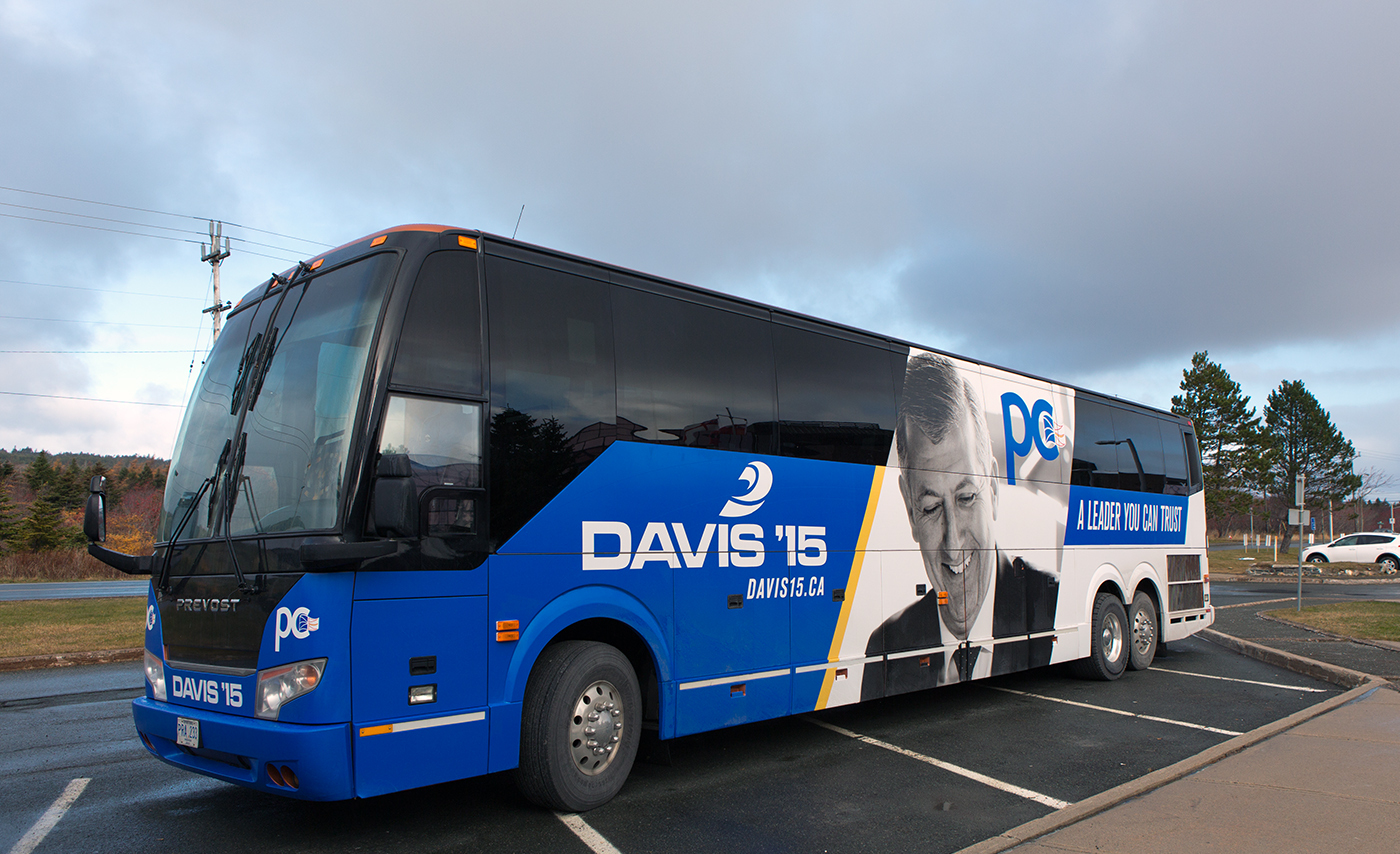 Leaders love their face on the side of the campaign bus.The 2015 election reminds me of "On the Buses". I would rather Stan, Jack and Blake as party leaders than the three we have. For Mr. Davis, the current premier, this will be the only time his face will be on the side of a bus if you believe the polls. He is in trouble in his own district. The liberal leader has a nice bus too, the NDP more of a minivan. Please vote on Election Day!